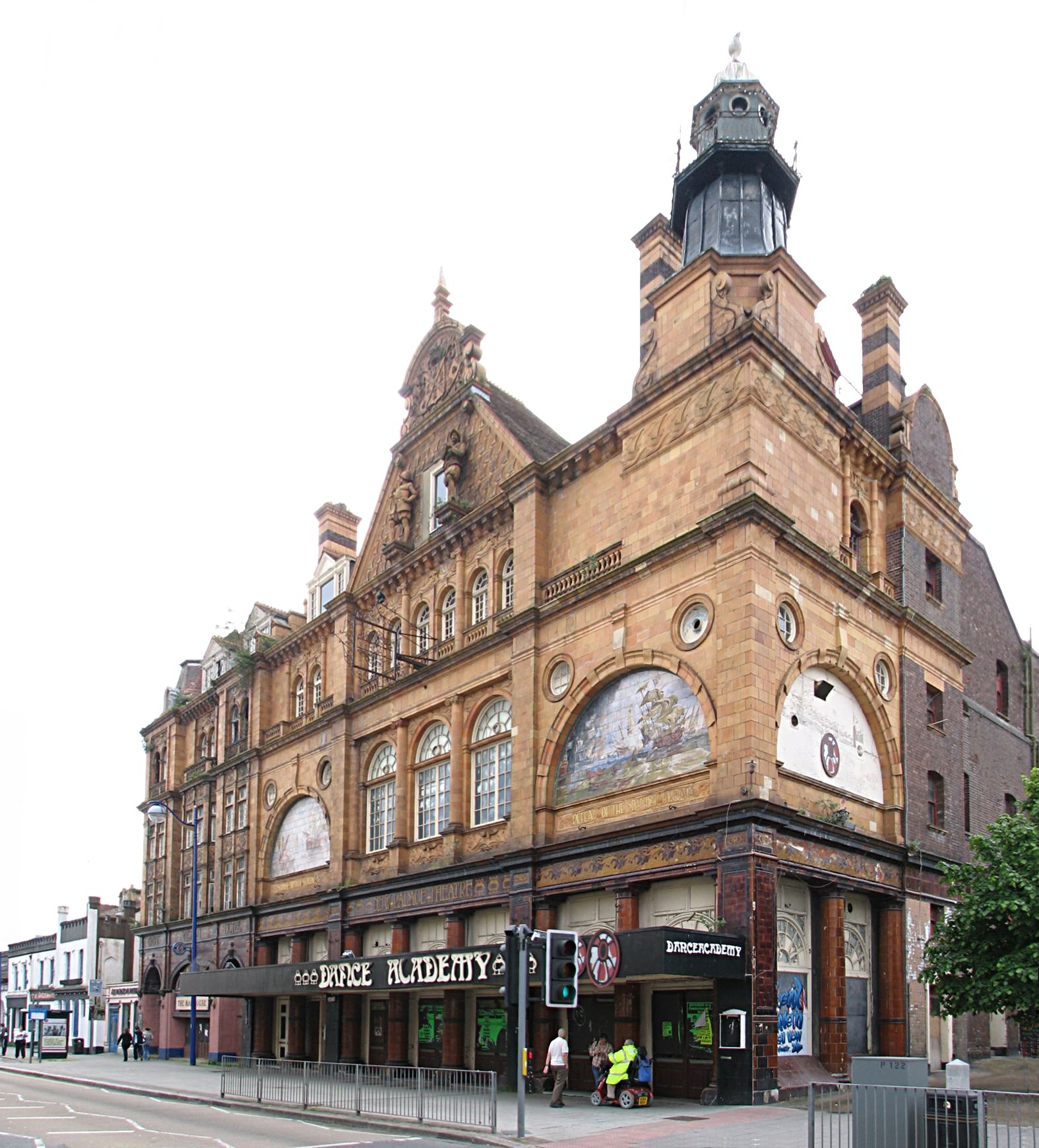 The Art Nouveau New Palace Theatre (1898), later "Dance Academy" nightclub (closed) on Union Street, Plymouth, Devon, UK.